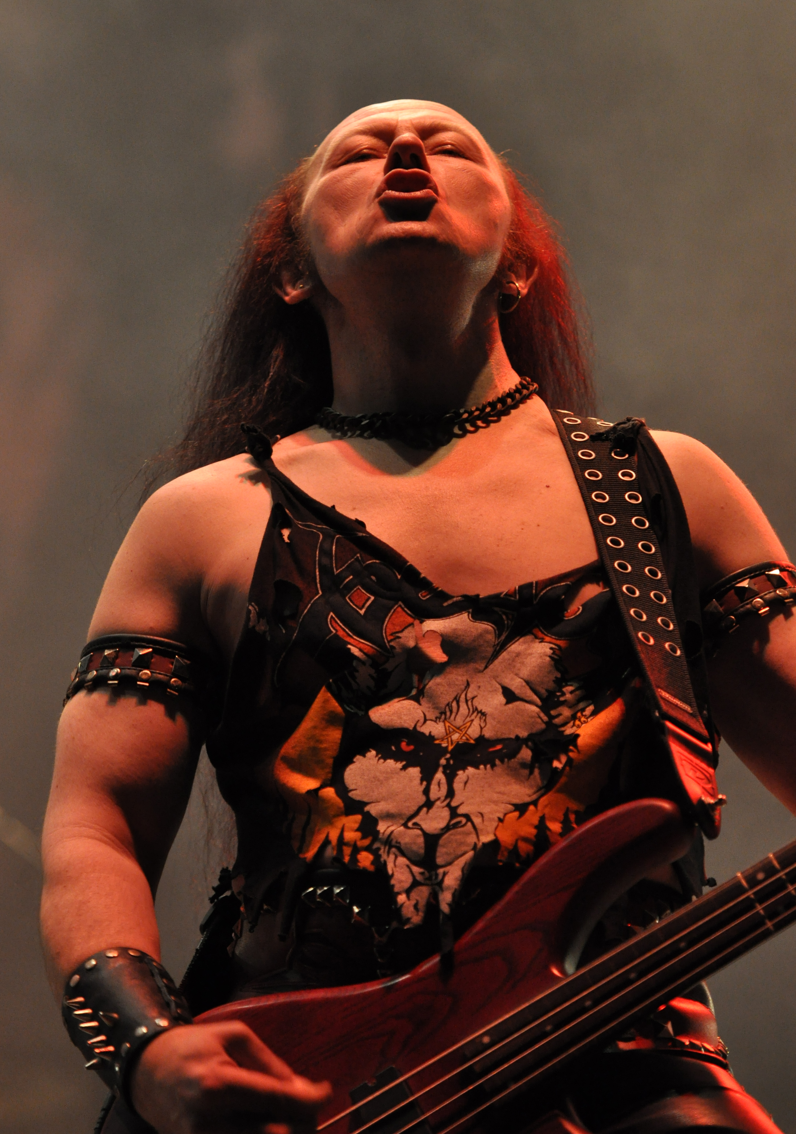 Venom at Party.San Metal Open Air 2013